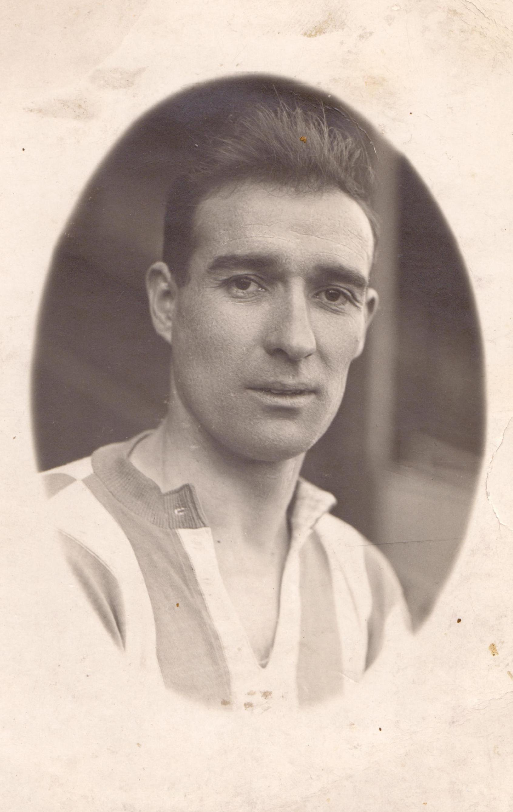 Family photograph.